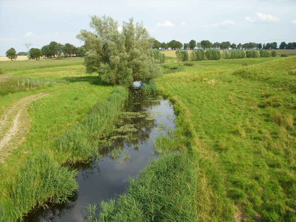 Aubach between Kirch Stück and Schwerin, Germany